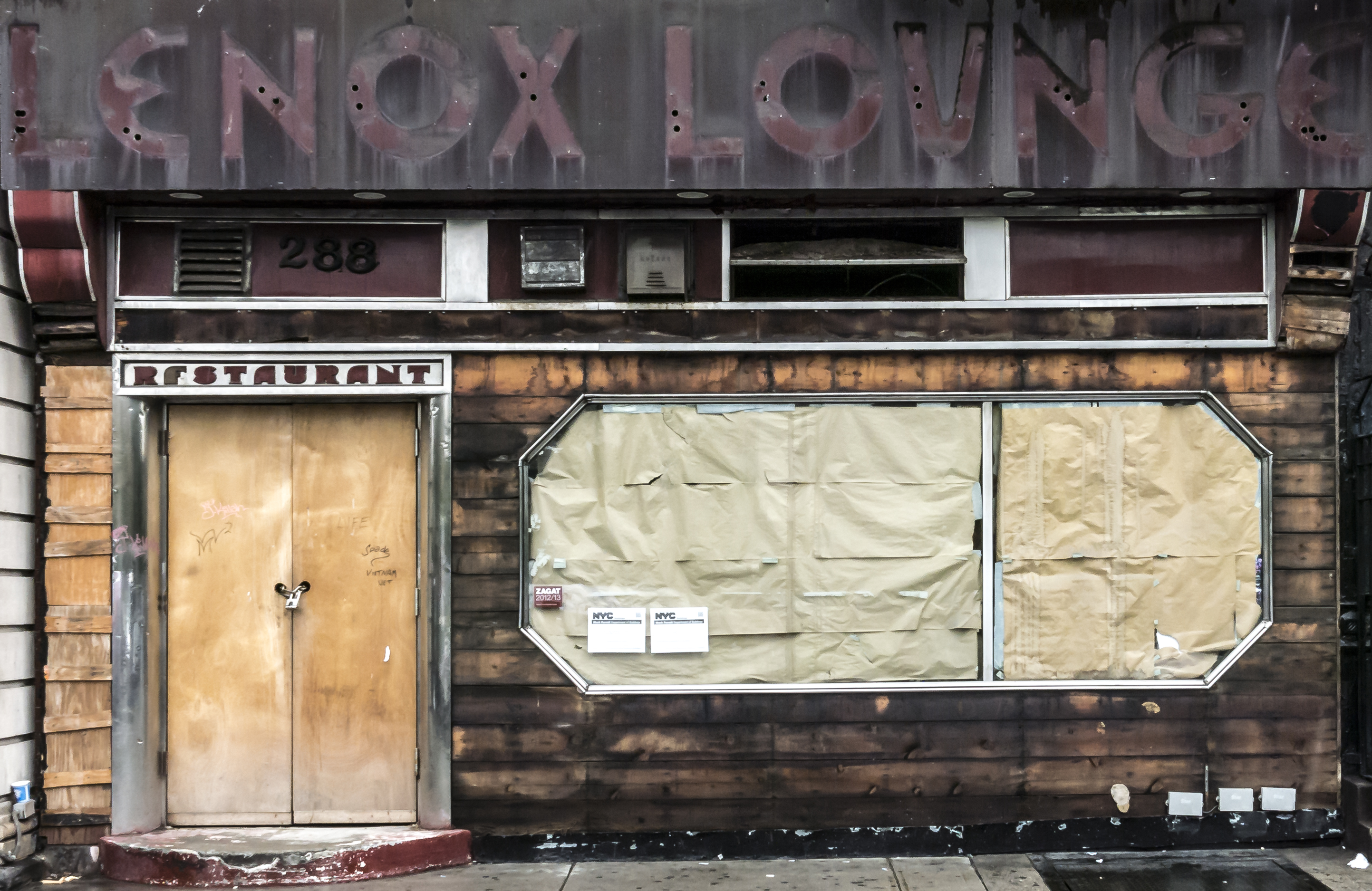 It's a shame.